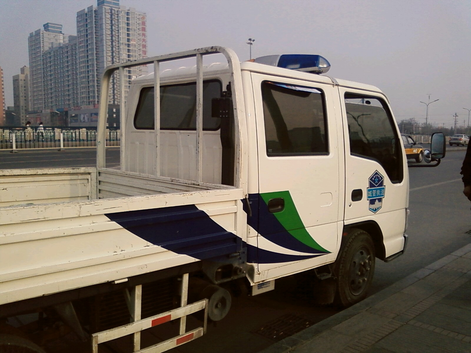 A truck of Urban Management Law Enforcement Bureau Chief in Beijing